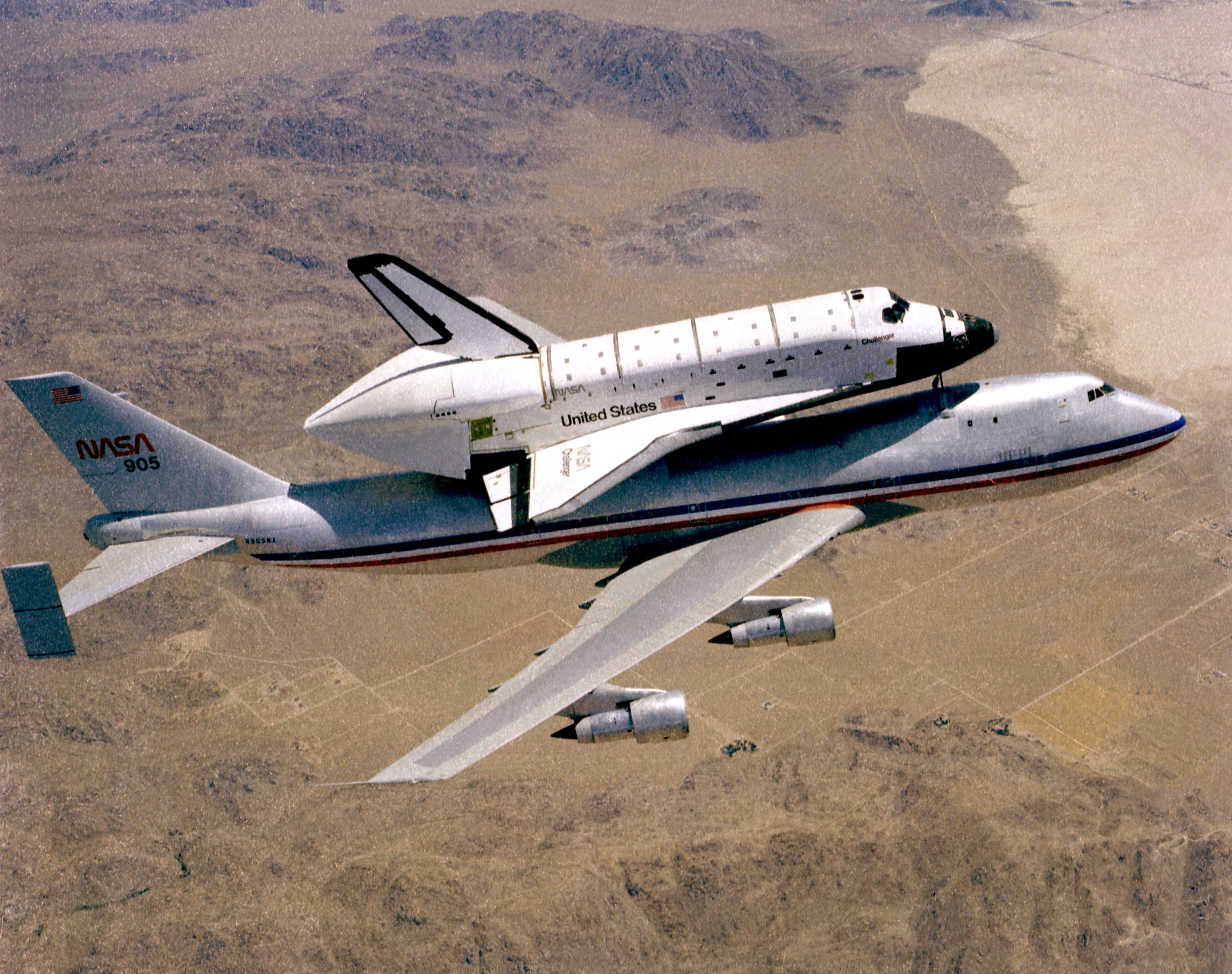 The Space Shuttle orbiter Challenger atop NASA's Boeing 747 Shuttle Carrier Aircraft (SCA), NASA 905, after leaving the Dryden Flight Research Center, Edwards, California, for the ferry flight that took the orbiter to the Kennedy Space Center in Florida for its first launch.